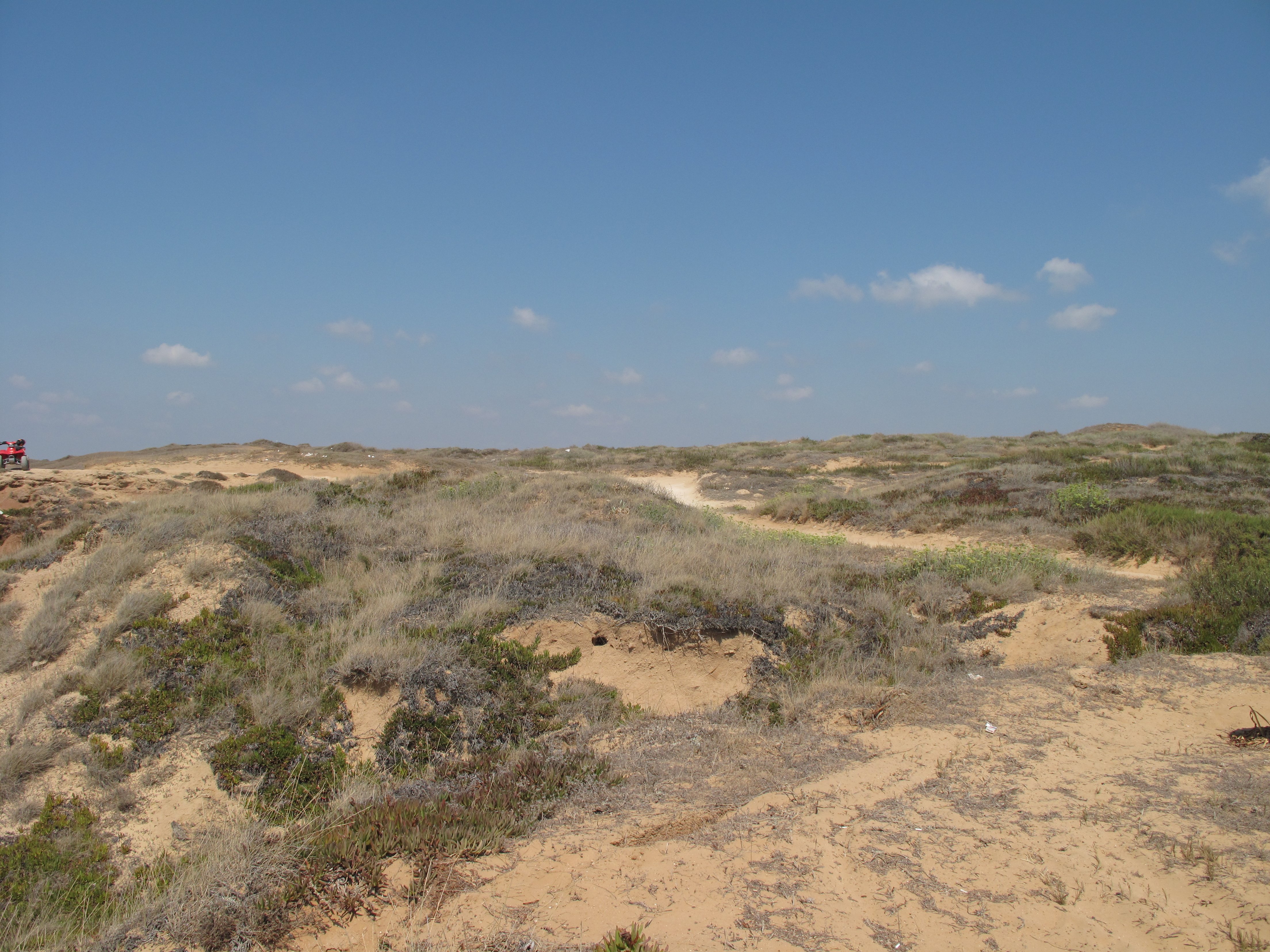 Rishpon, Israel.